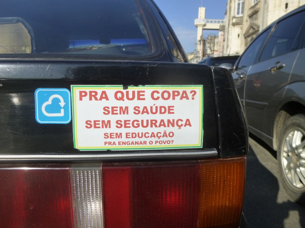 Claim against Football World Cup in Brazil: "Football World Cup for what? Without health, without security, without education - only to fool the public? (Salvador da Bahia)